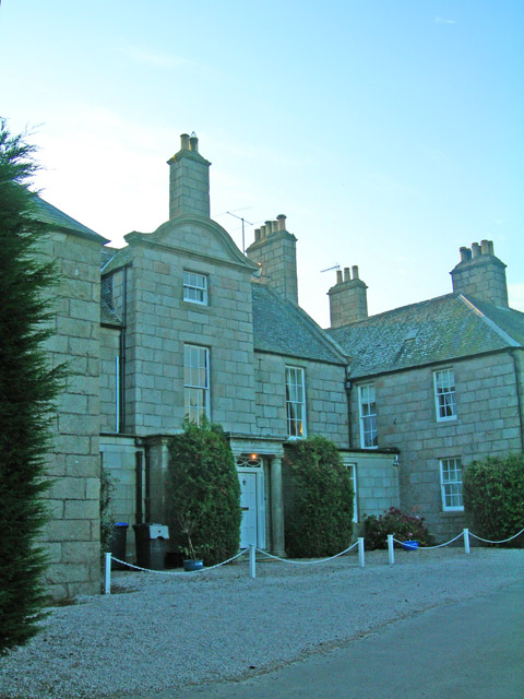 Netherley House The stonework of this historic mansion is readily recognisable by comparison to historic photography dating to about 100 years ago; however, the forest has encroached on the home during the last century making a full width photo virtually impossible. The mansion was built by the Silver family, who earned their fortune in the East India trade.